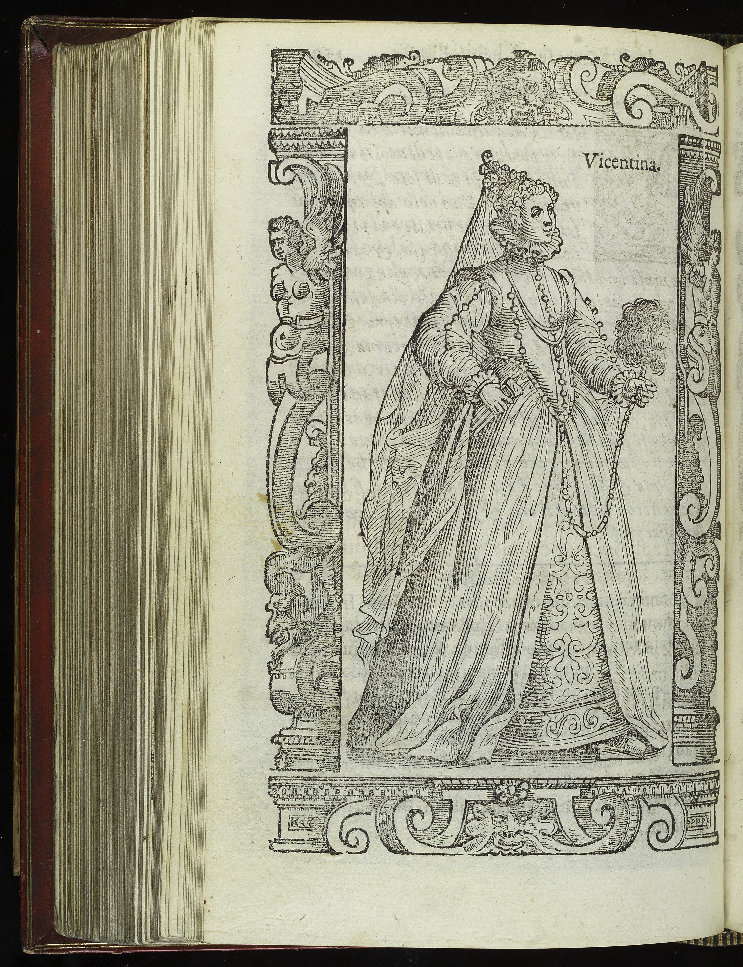 An illustration of a noblewoman in a long gown, veiled headdress, carrying a feathered fan. Labelled 'Vicentina' to indicate female costume from Vicenza. Rare Books Keywords: Italy; Traditional; Renaissance; Costume; Vecellio, Cesare; Dress